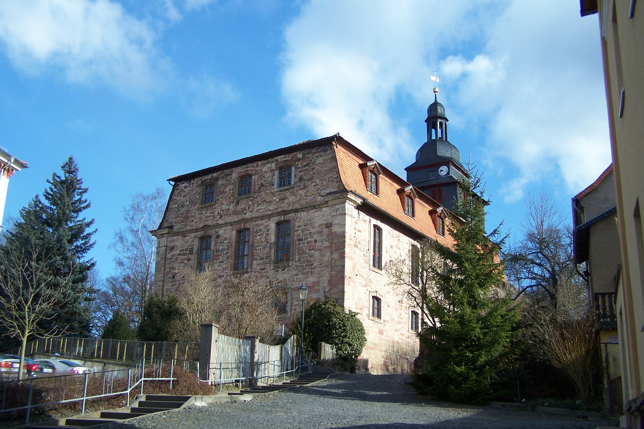 The evangelic church in Stadtlengsfeld.